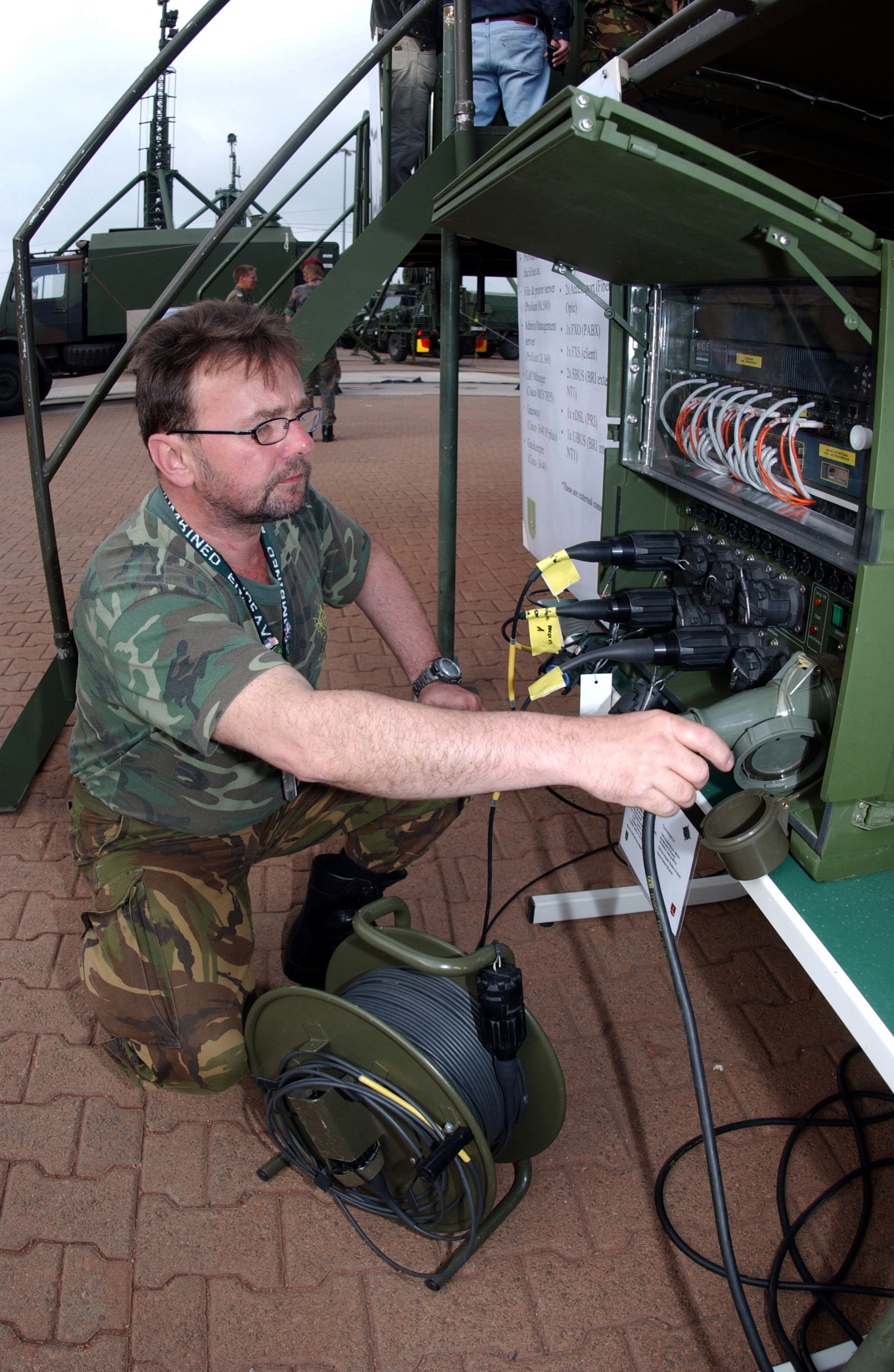 Belgium Army First Sergeant Major (1SGM) Patrick Costanza, Broadband Integrated Command Post Communications Network (BIGSTAF) Operator, tests connectivity between a phone line and a fax machine at Lager Aulenbach, Germany, during Exercise COMBINED ENDEAVOR 2003. The Exercise is a Partnership for Peace (PfP) exercised hosted by Germany, and is the largest information and communications systems exercise in the world which focuses primarily on Command, Controls, Communications, and Computers (C4), interoperability testing and documentation.